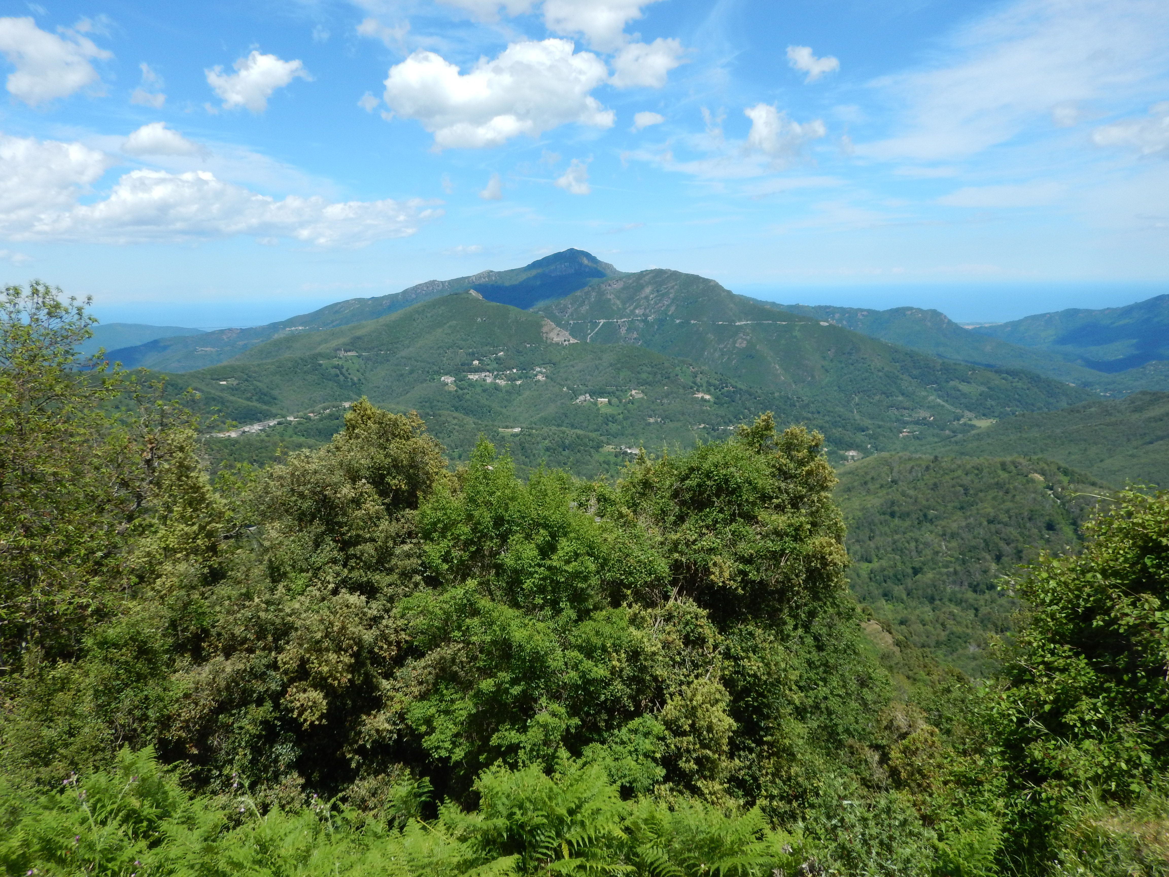 The Castagniccia region of Corsica (France) seen from de Col de Prato. In background the Tyrrhenian Sea